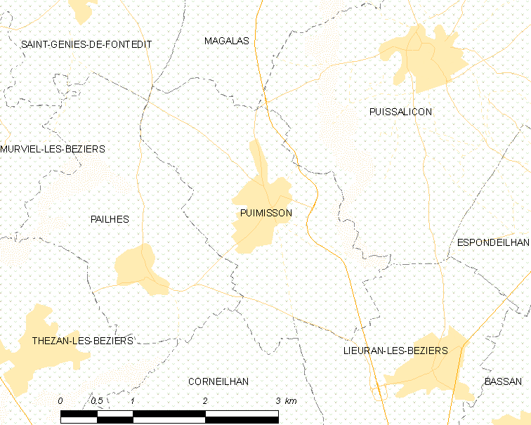 Map commune FR insee code 34223.png - Puimisson